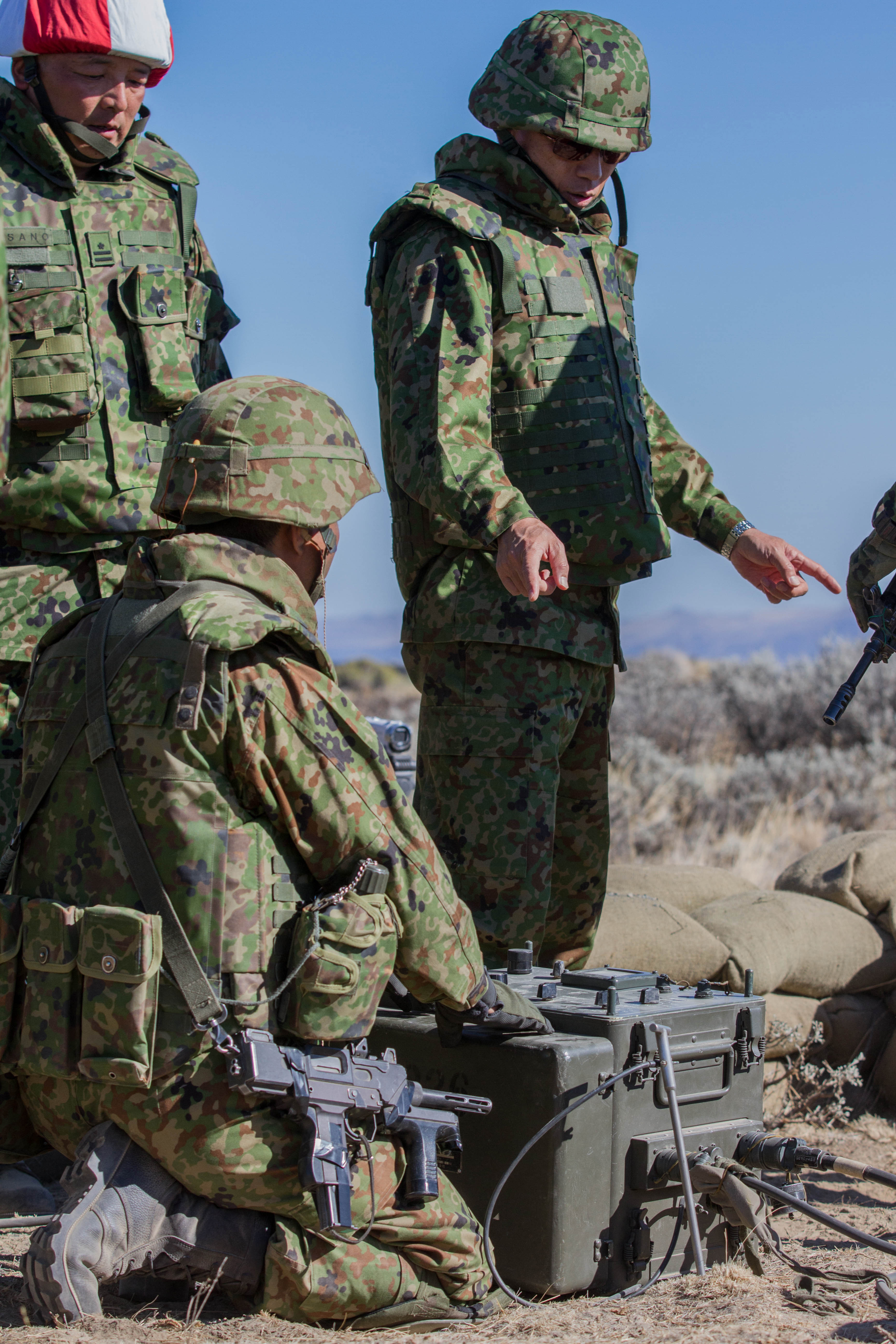 Lt. Gen. Koichi Isobe (standing right), commanding general of the Eastern Army, Japan Ground Self-Defense Force, is shown an anti-tank weapon system at Yakima Training Center, Wash., Sept. 5. The demonstration was part of Operation Rising Thunder, a combined operation between the Army and Japan designed to increase interoperability between the two nations. (U.S. Army photo by Sgt. Cody Quinn, 28th Public Affairs Detachment)